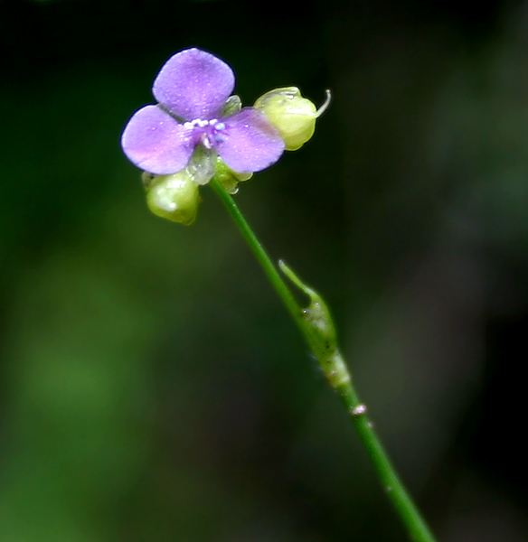 Murdannia nudiflora (Synonyms: Commelina nudiflora, Aneilema nudiflorum, Ditelesia nudiflora)- Naked-Stem Dewflower, Doveweed • Hindi: Kansura • Malayalam: Tali-pullu • Manipuri: Tandal pambai • Mizo: Dawng • Nepali: काने झार Kane jhar, मसीनो काने Masino kane- in Narsapur, Medak district, Andhra Pradesh, India.